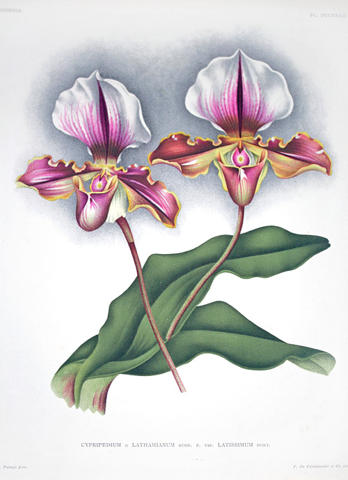 Cypripedium Lathamianum = Paphiopedilum Lathamianum artifical hybrid (P. spicerianum × P. villosum )